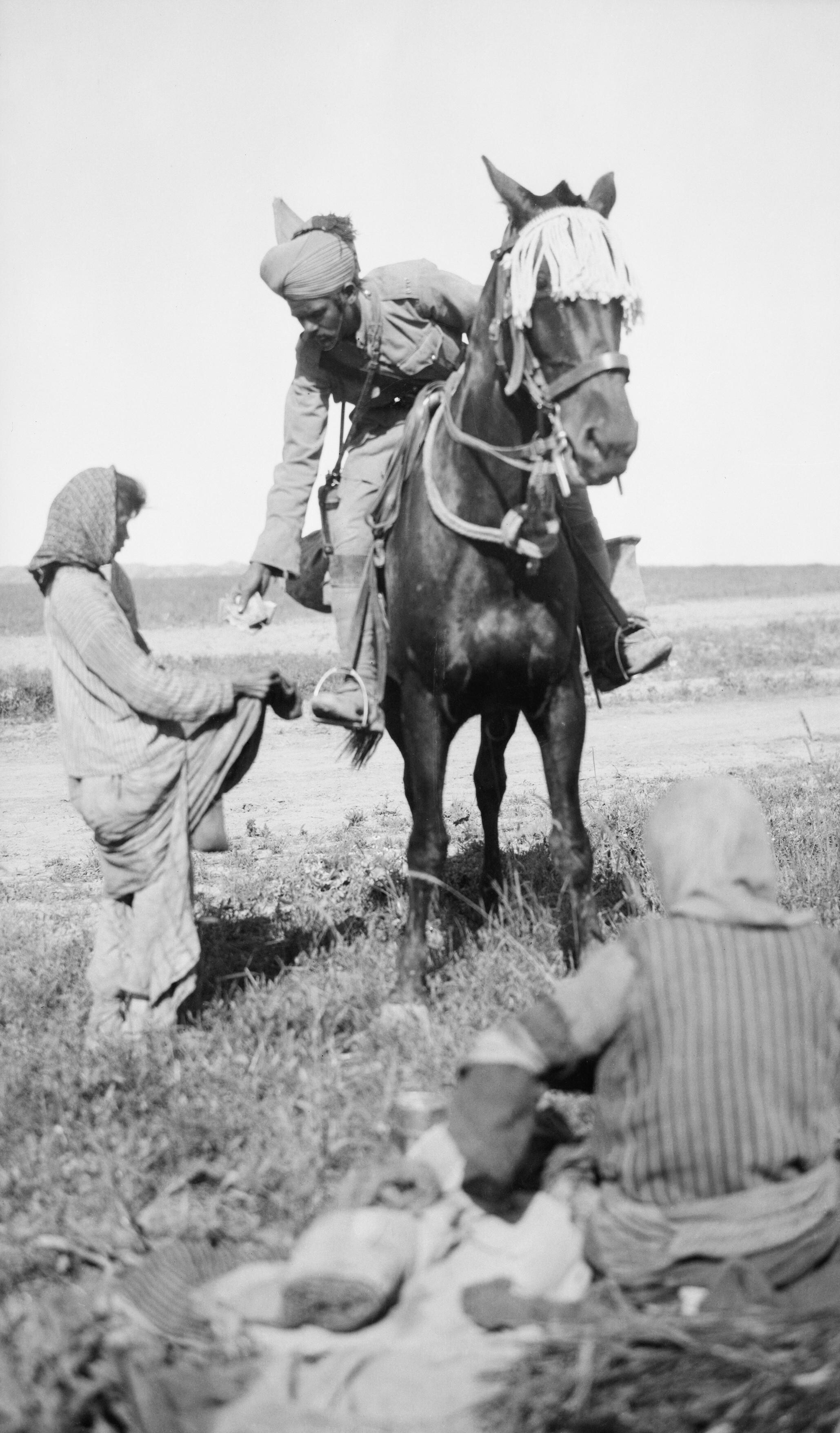 An Indian cavalryman who has found two starving Christian girls in the desert leans down from his horse to give one of them half his rations. At the time the men themselves were on short rations. The other girl sits in the foreground with her back to the camera watching. Mesopotamia. World War I.